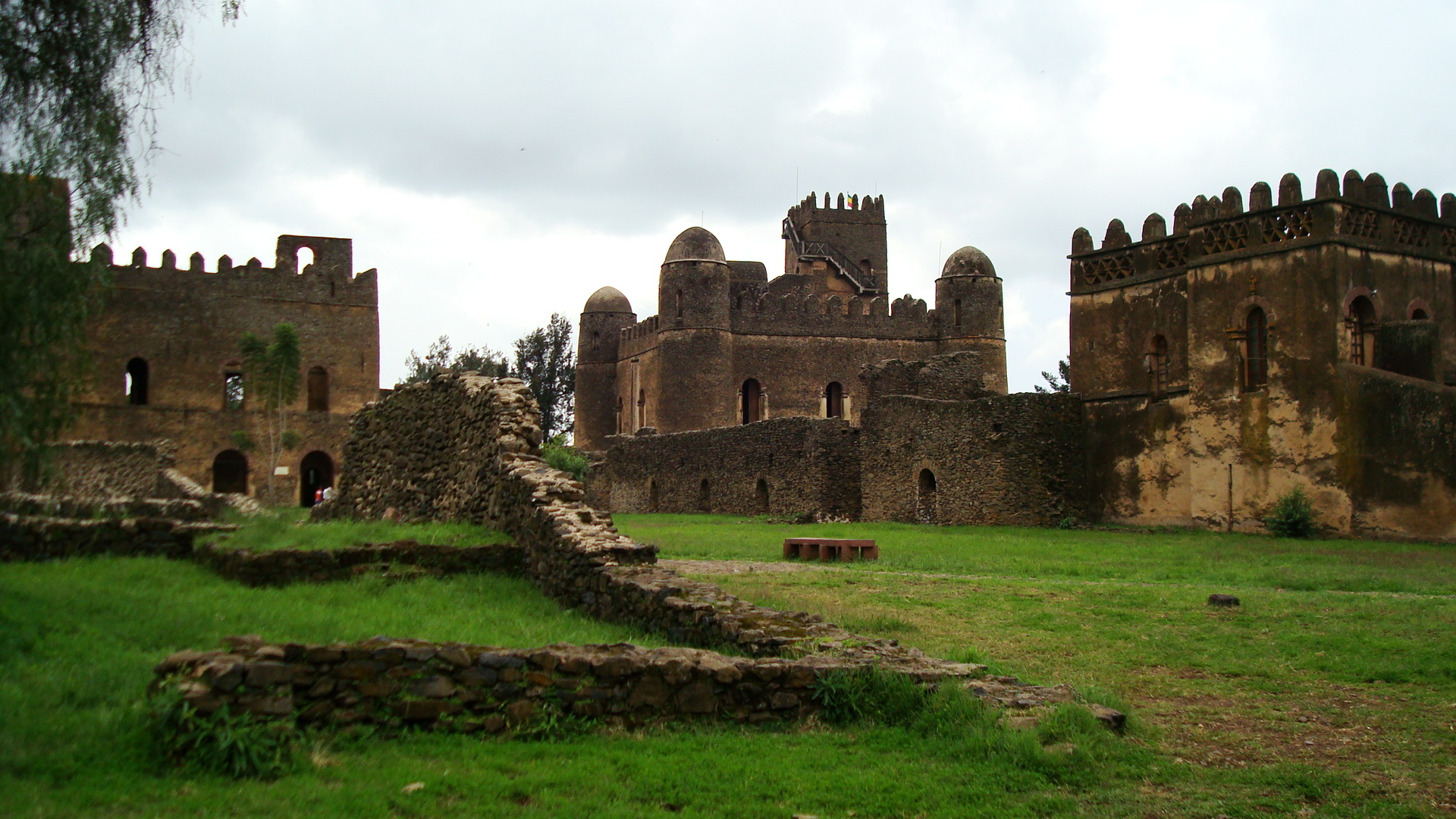 The Royal Enclosure at Gondar